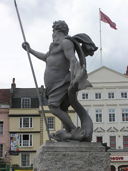 Statue of Neptune in the city centre, Bristol England.